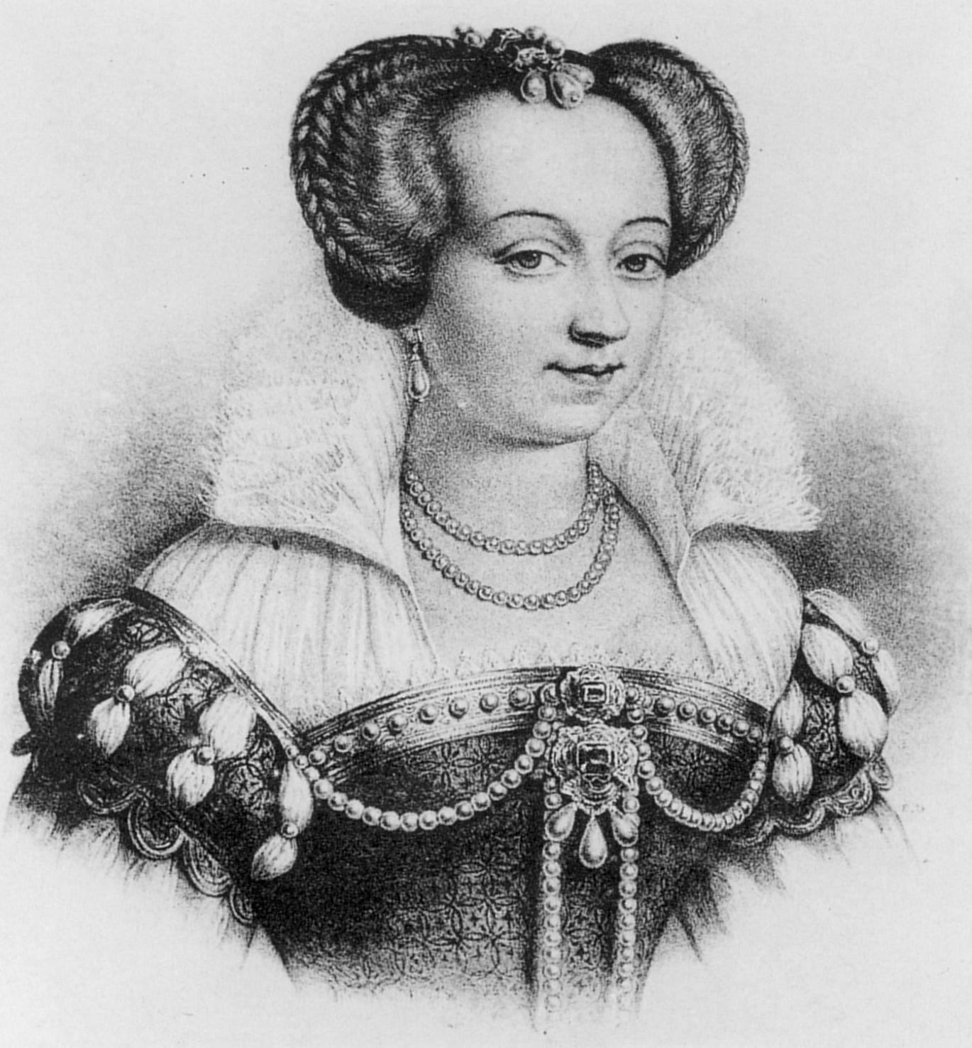 Marguerite de Valois, litography after a contemporary portrait